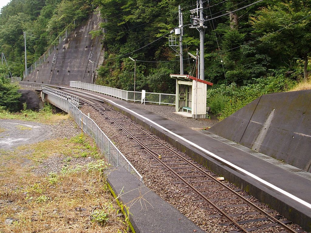 Hiranda Sta.